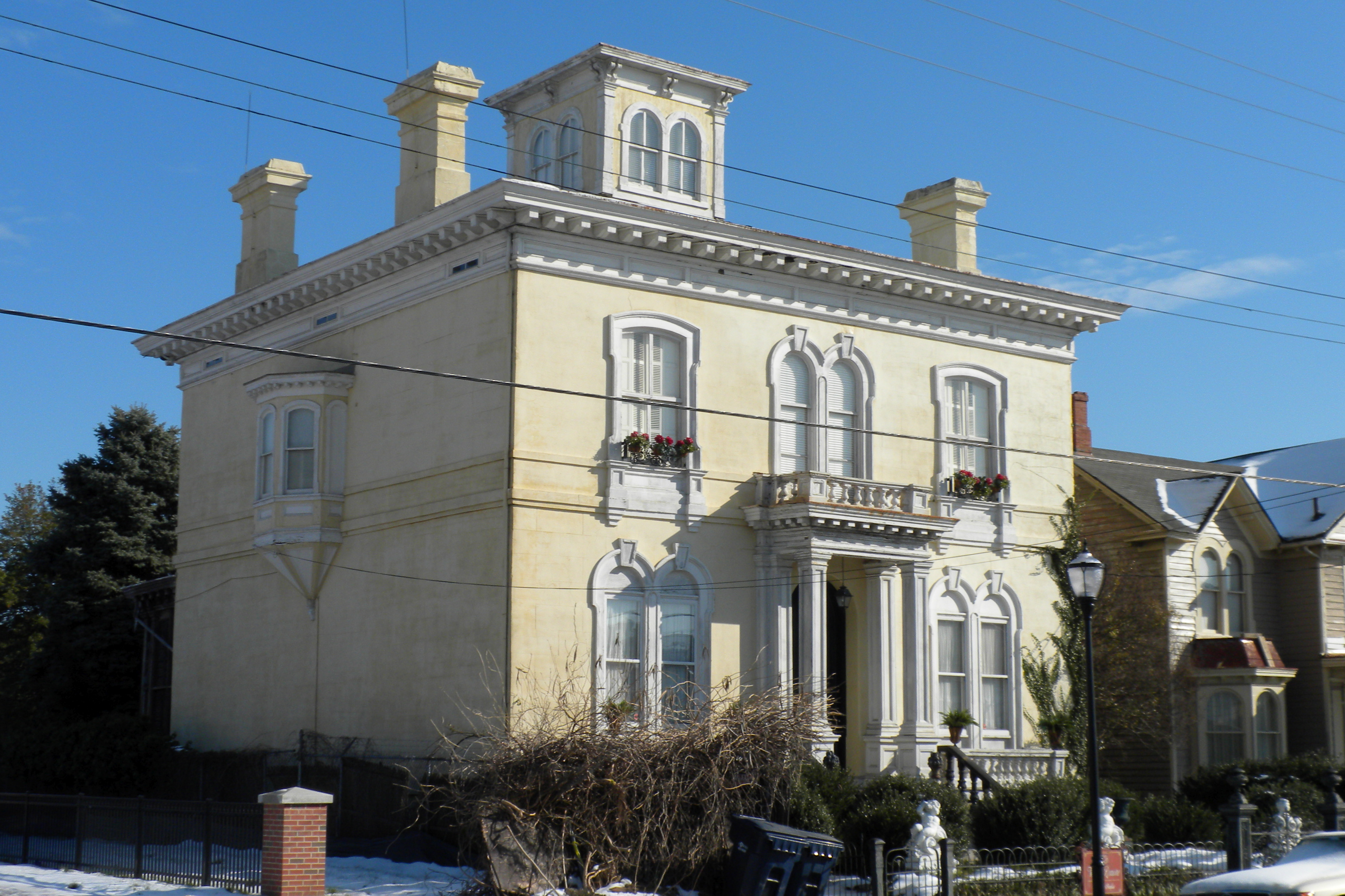 General Mahone's House in Petersburg, VA. Owned by Confederate General. In the South Market Street NRHP District. I donate this photo to the public domain.